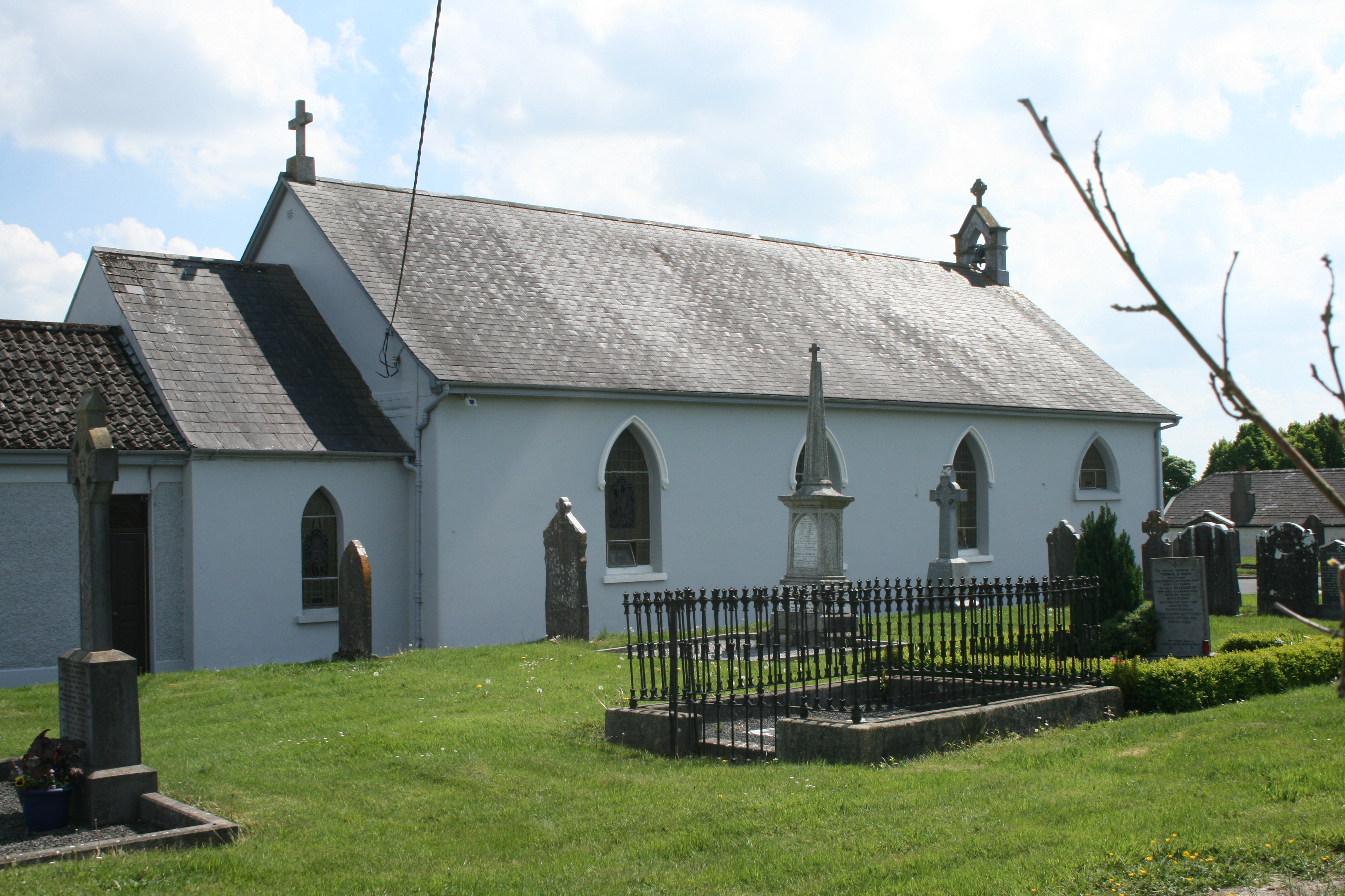 St. Brigids Church